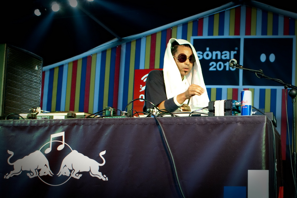 Moodymann performing at the Sónar Festival in Barcelona (2010)